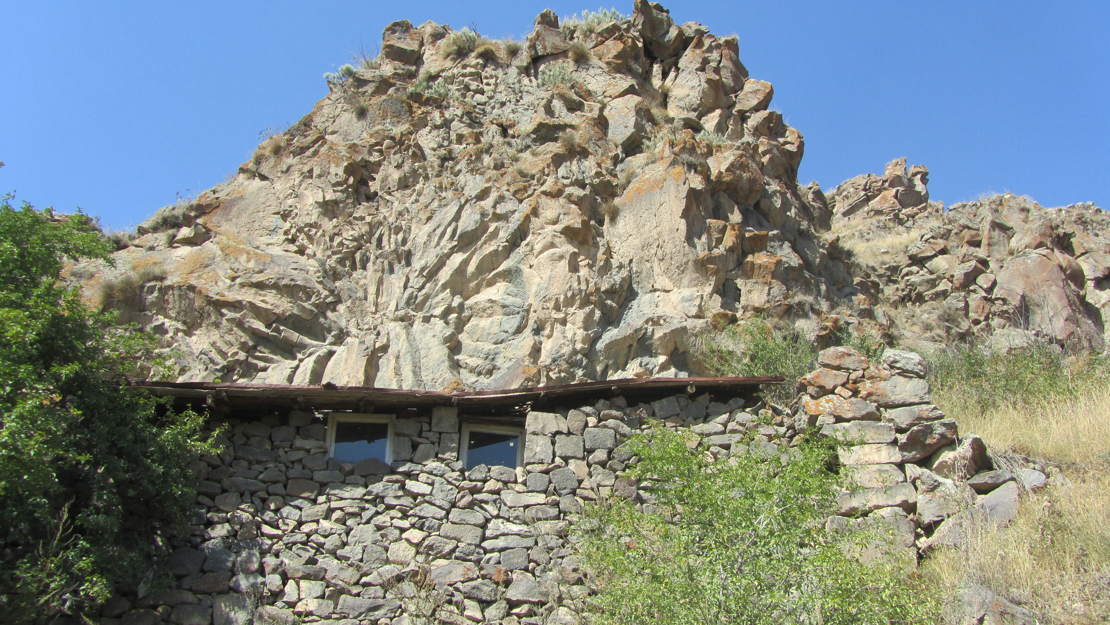 Photo by Arthur Papoyan 13/18